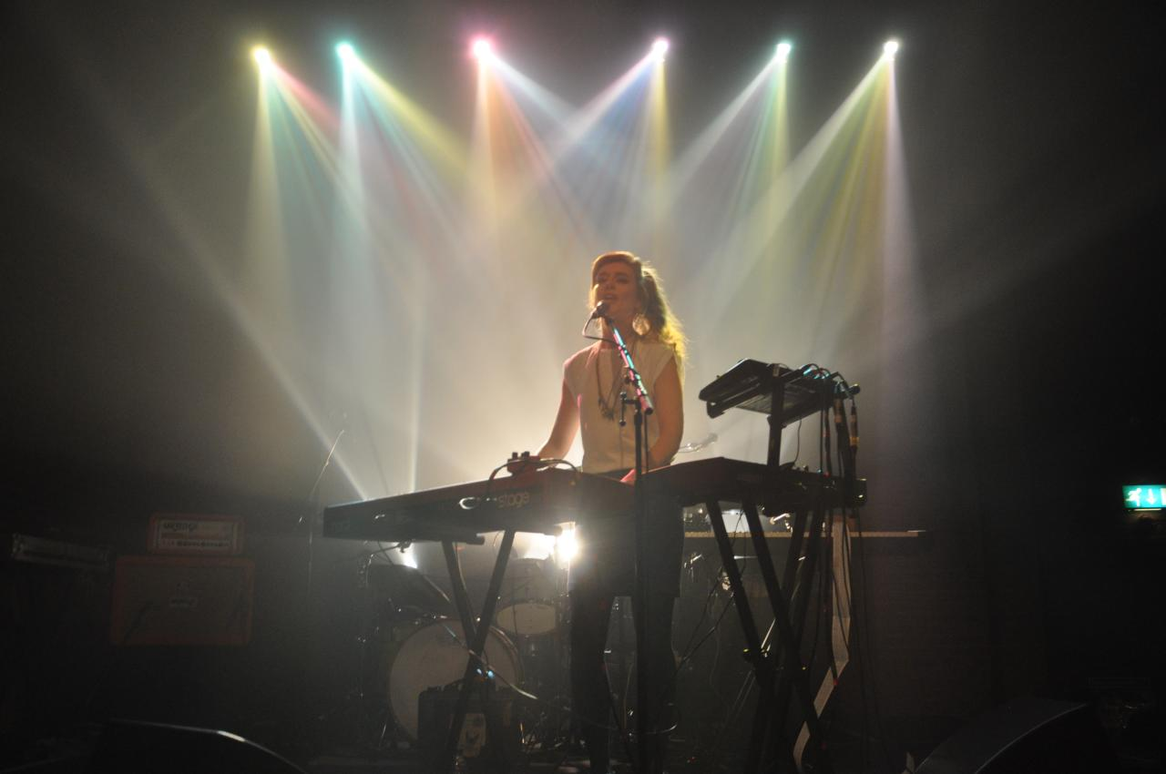 Hannah Peel performing live at the Village Underground, London 2014. (photo credit Dan Davies)